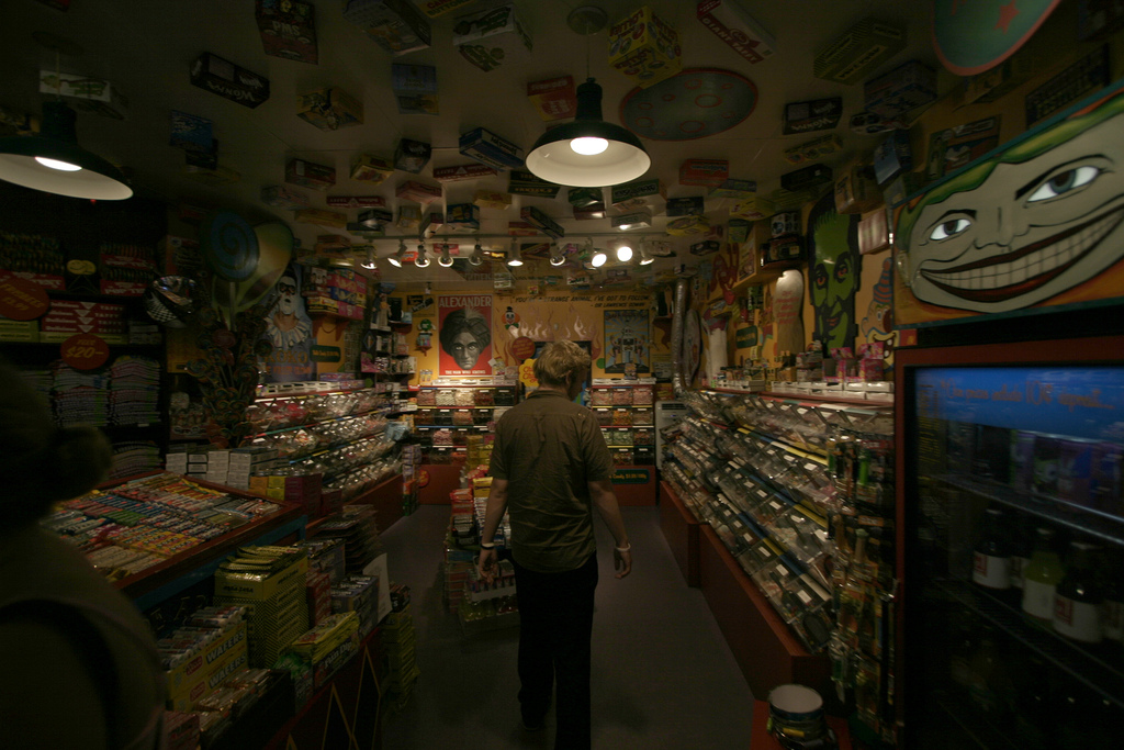 A picture of Freak Lunchbox candy store in Halifax, Nova Scotia.